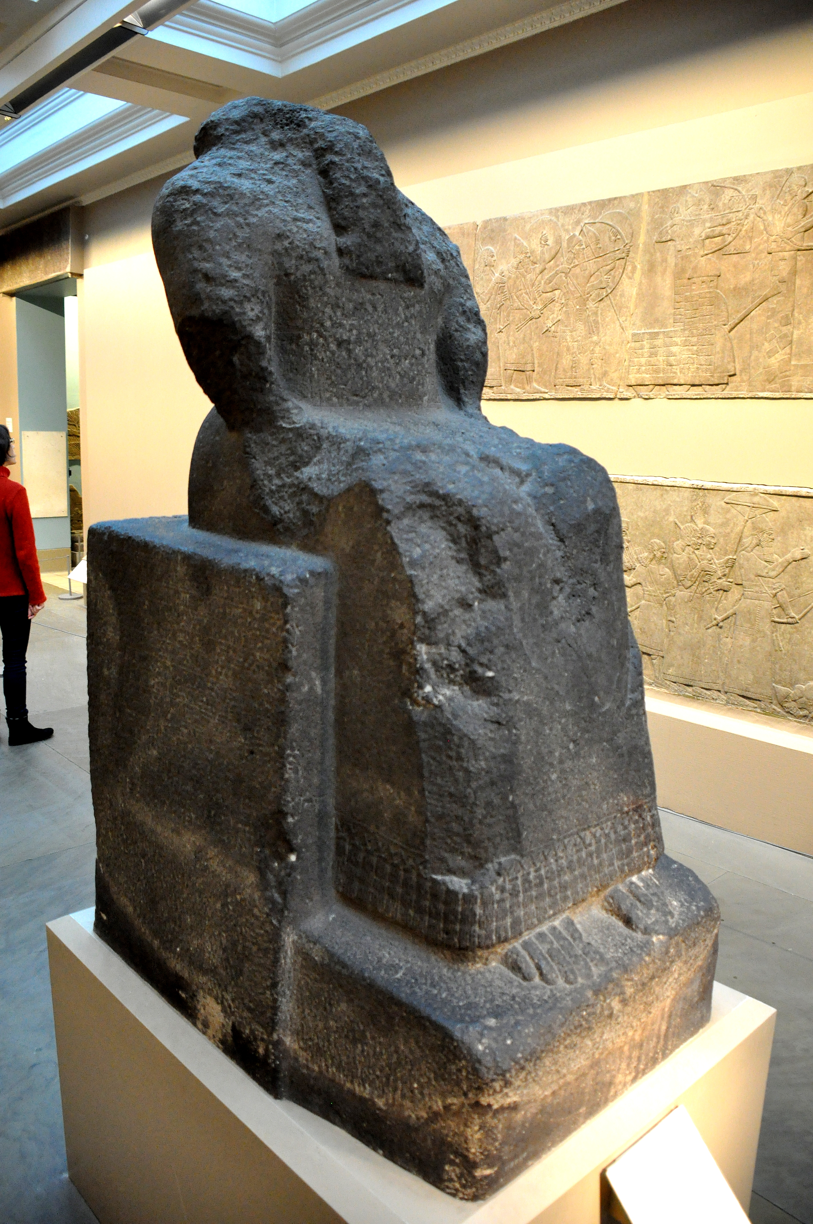 Basalt statue of the god Kidudu, guardian spirit of the wall of the city of Ashur (Assur). Neo-Assyrian Period, reign of Shalmaneser III, c. 835 BCE. From Ashur, Mesopotamia, modern-day Iraq. The British Museum, London.